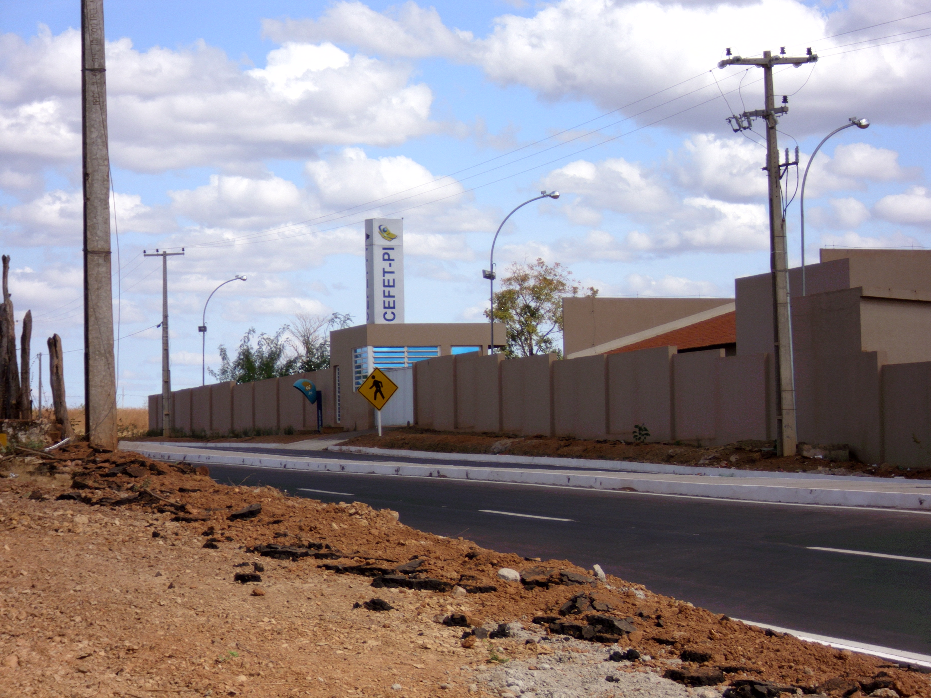 IFPI (FIEST) - Federal Institute for Education, Science and Technology of Piauí.